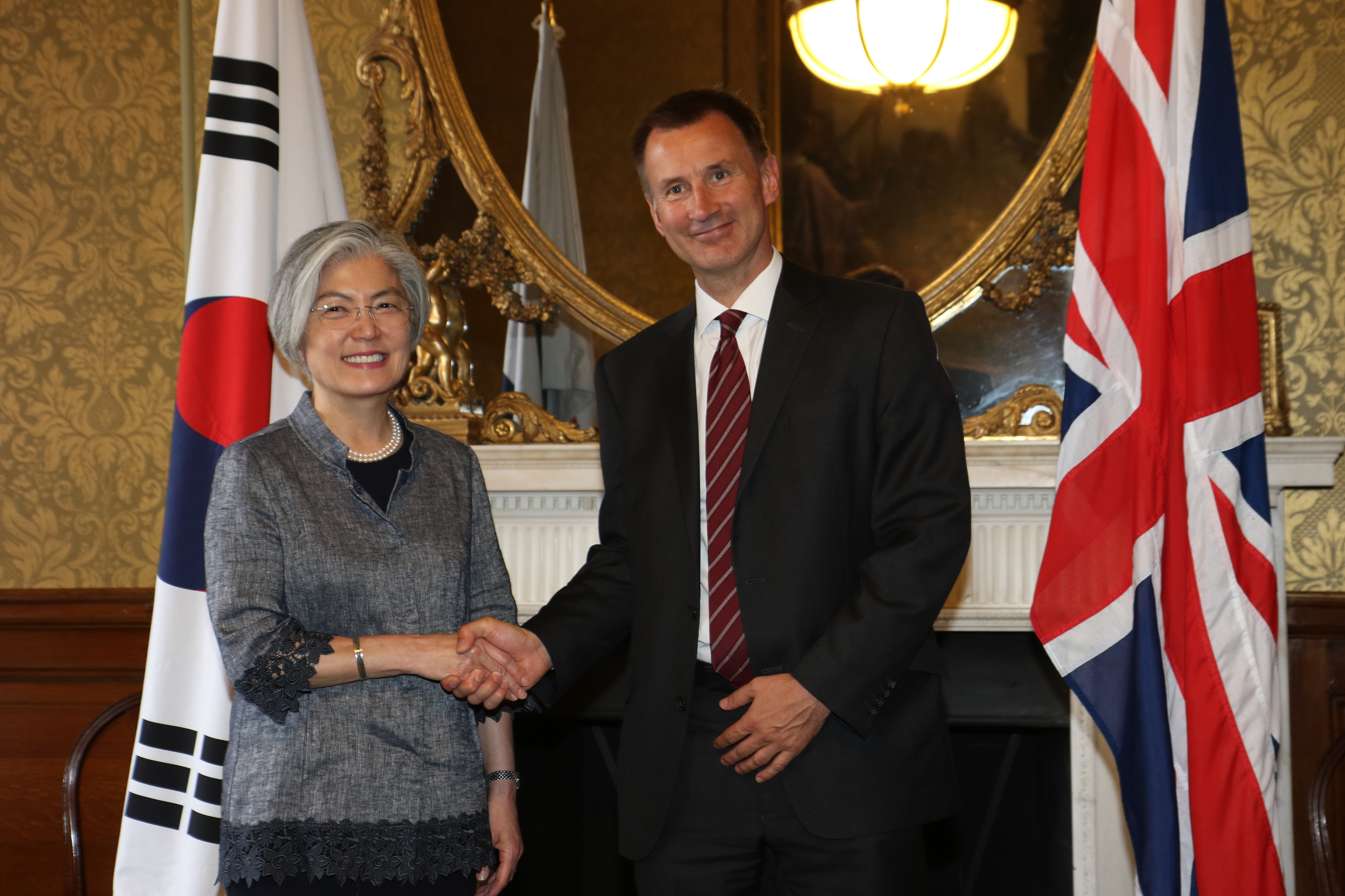 Foreign Secretary Jeremy Hunt meeting South Korean Foreign Minister Kang Kyung-wha in London.